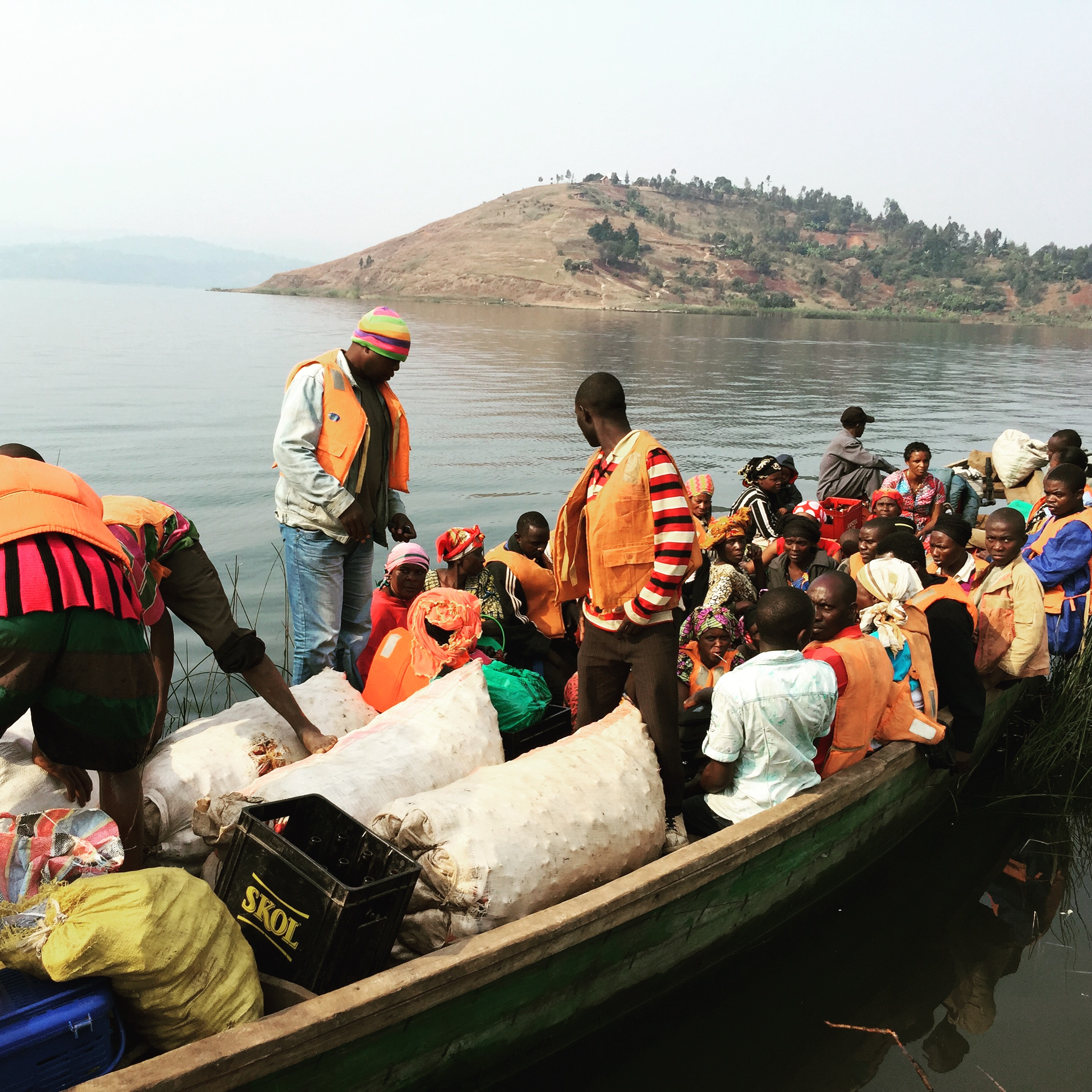 This is an image with the theme "Africa on the Move or Transport" from: Democratic Republic of the Congo